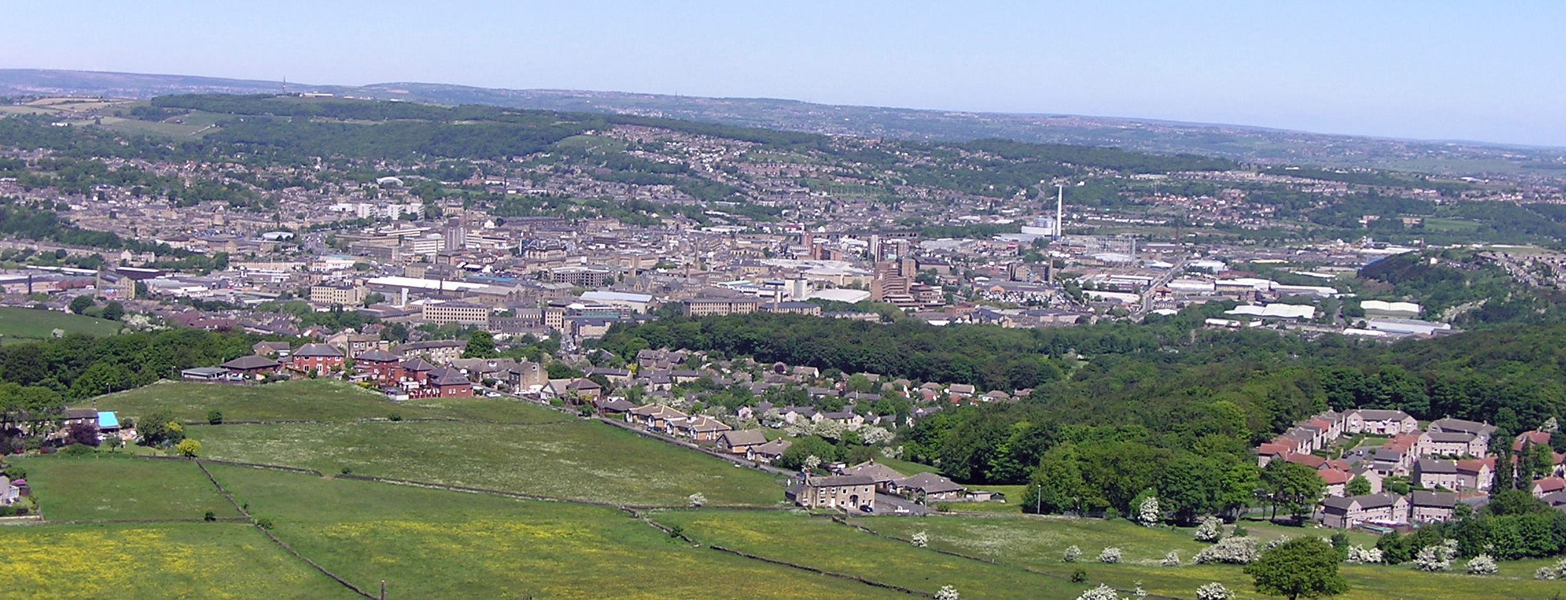 1000px Image of Huddersfield from Castle Hill